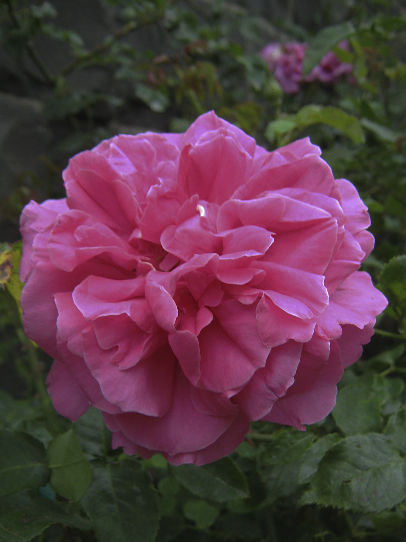 Rose 'Emily Rhodes', Hybrid Tea climber by Alister Clark 1937; Photographed in the Alister Clark Memorial Rose Garden, Bulla, Victoria